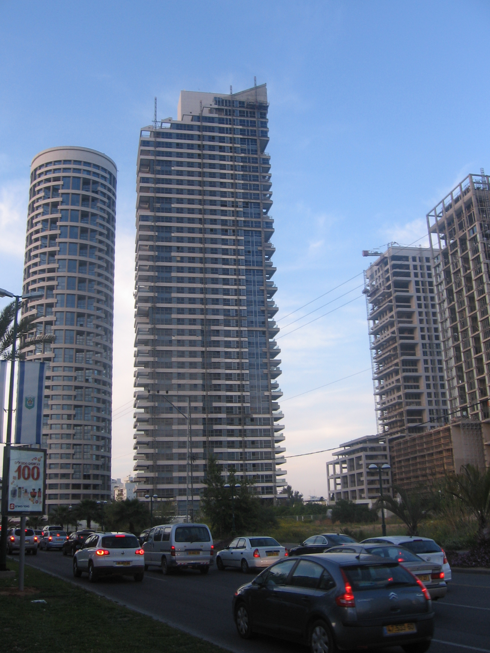 Manhattan tower in Tel Aviv.